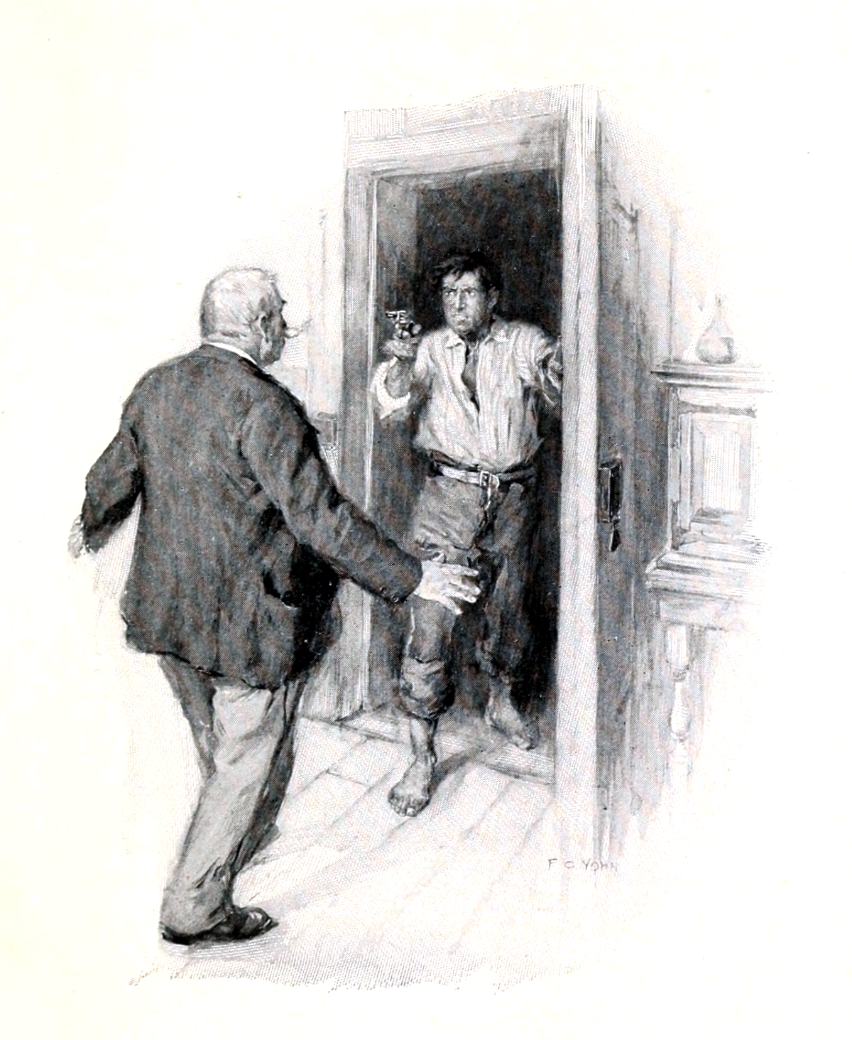 Illustrations from the book Raffles (Charles Scribner's sons, 1906), written by E. W. Hornung and illustrated by F. C. Yohn